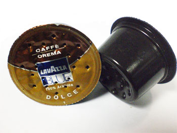 Lavazza BLUE coffee capsules "Créma Dolce" after usage